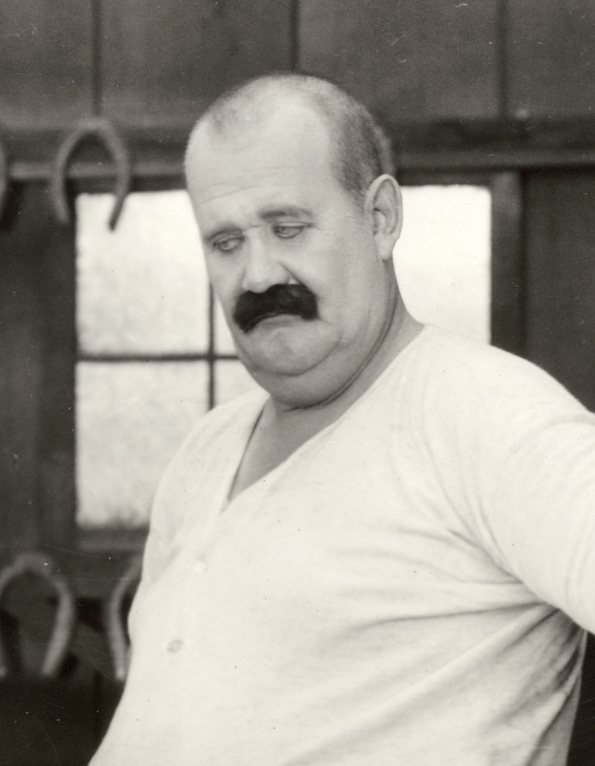 Joe Roberts in a detail from a scene still from the silent comedy "The Blacksmith" (1922).